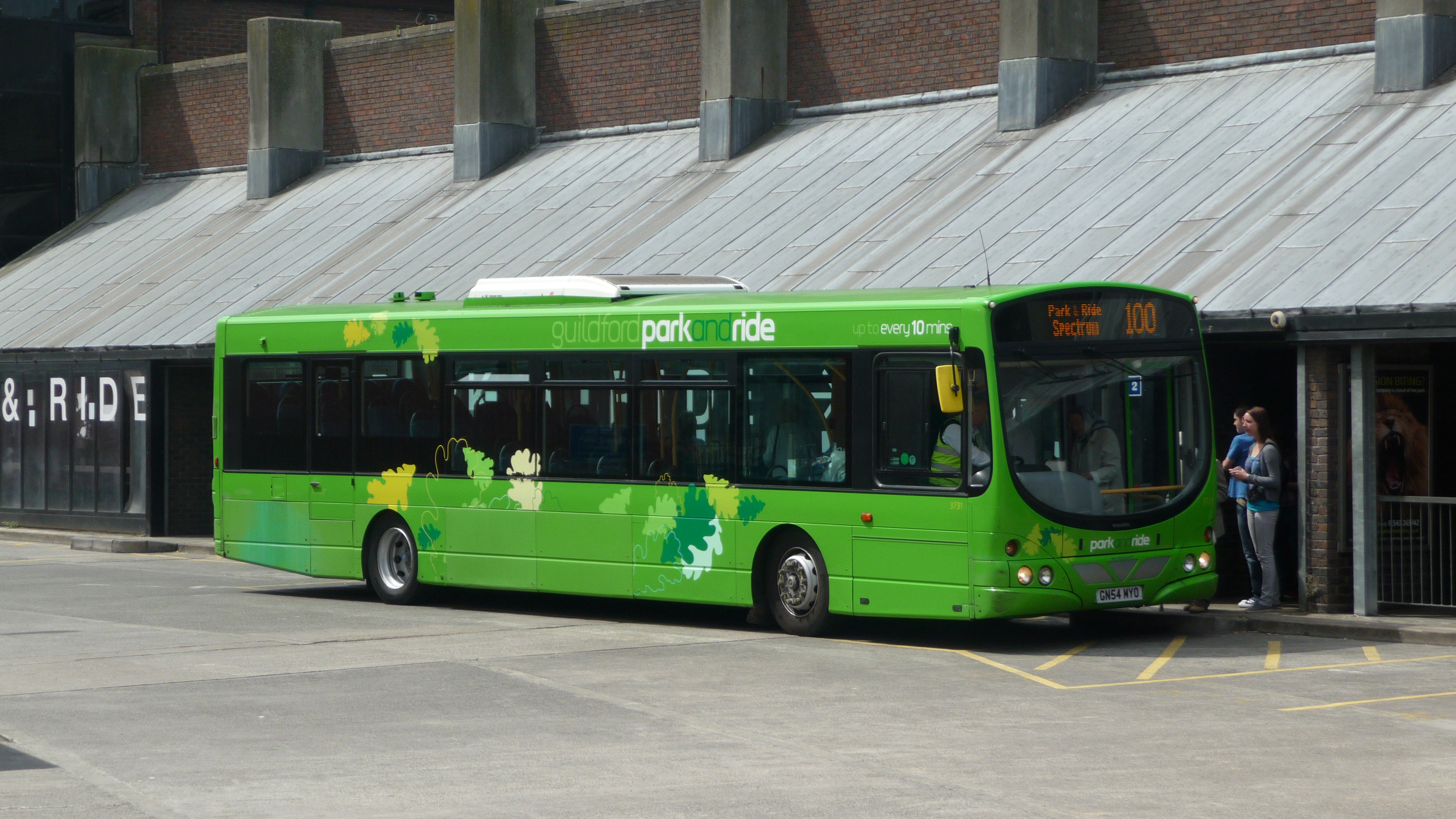 Arriva Guildford & West Surrey 3731 (GN54 MYO), a Volvo B7RLE/Wright Eclipse Urban, in Guildford, Surrey, bus station on Guildford park and ride route 100. It wears the light green version of the livery, representing spring.